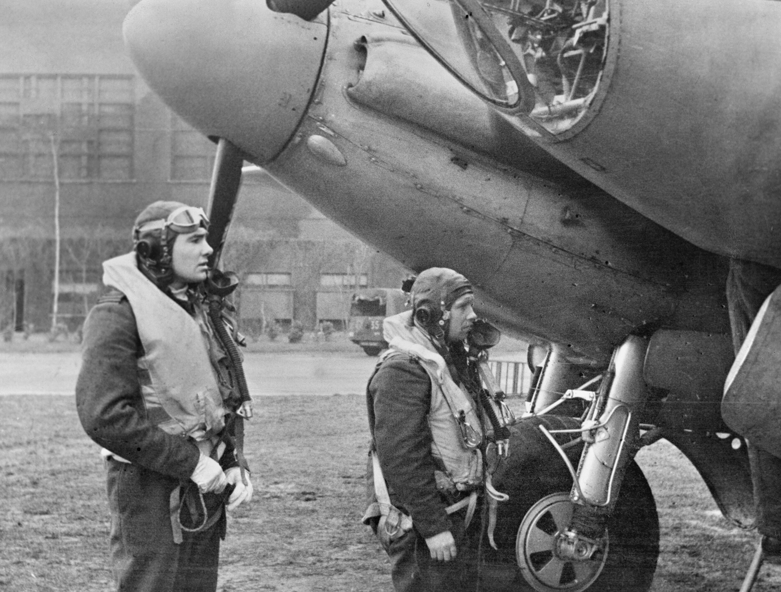 Operation OYSTER, the daylight attack on the Philips radio and valve works at Eindhoven, Holland, by No. 2 Group. Wing Commander H I Edwards VC (left), leader of the De Havilland Mosquito B Mark IVs of Nos. 105 and 139 Squadrons RAF on the raid, and his navigator approach their aircraft before taking off from Marham, Norfolk.